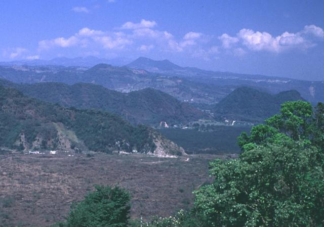 The Naolinco volcanic field consists of a broad area of scattered Quaternary pyroclastic cones and associated dominantly basaltic lava flows north of the city of Jalapa in Mexico.